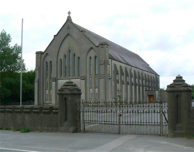 Allenwood Church On the north side of the R403 road. Allenwood village developed because of a nearby electricity power station that burned peat from the surrounding bog lands. The station was built in 1952 and demolished shortly after it was shut down in 1994.